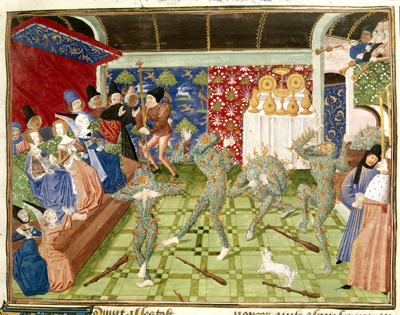 Masquerade at French court (Miniature) King Charles VI of France and his knights masquerade as savages; with part of decorated border. The famous "Bal des ardents".